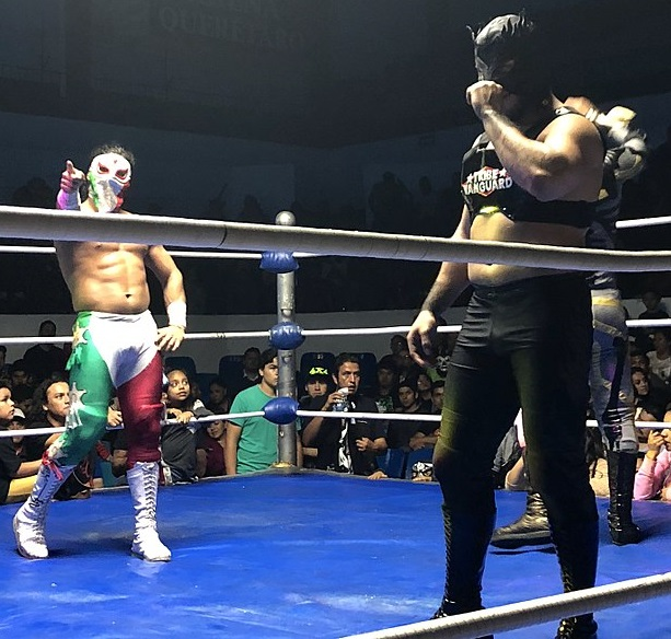 Wrestlers Bandido & Flamita in Arena Querétaro March 21 2018